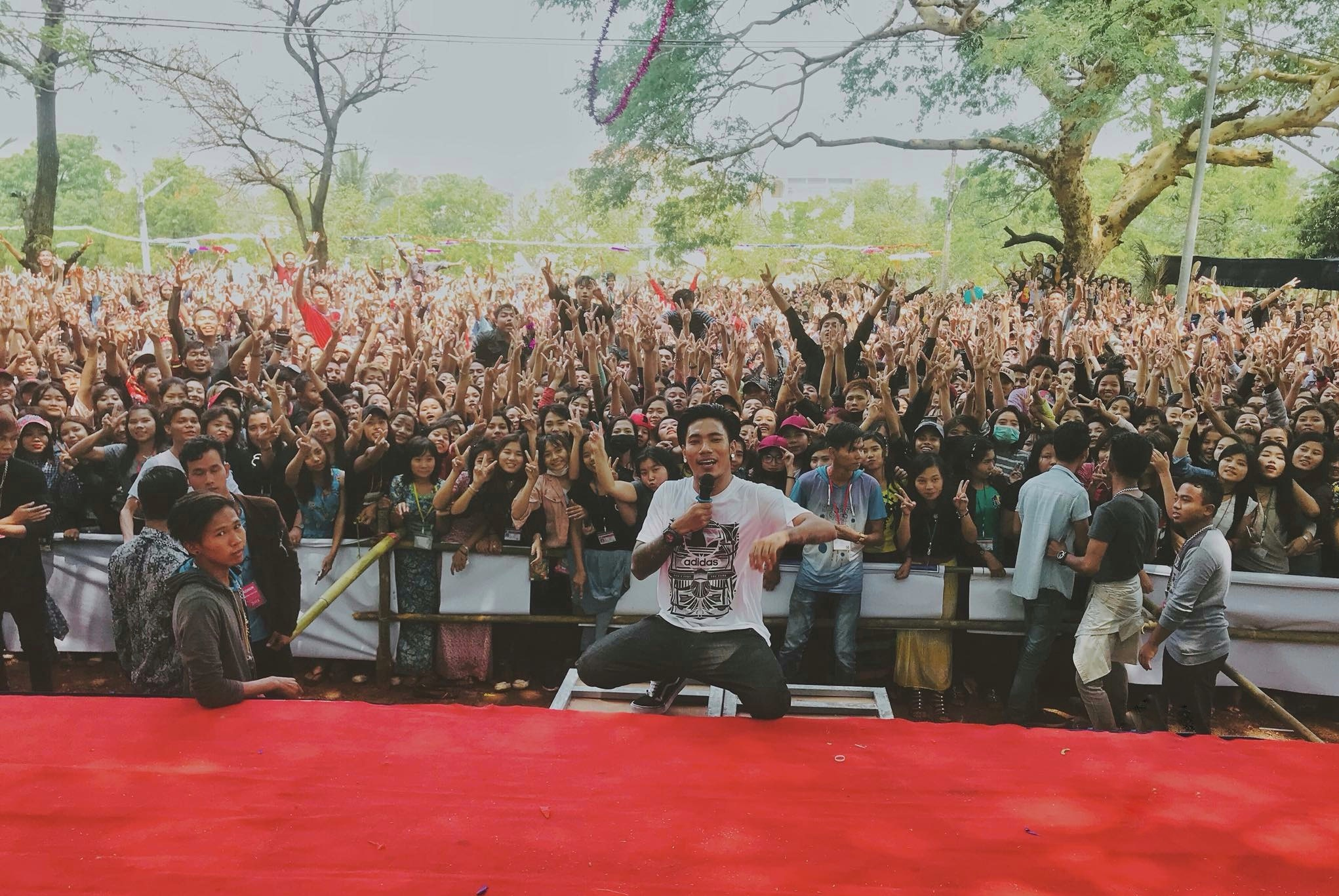 Oasix performing at show